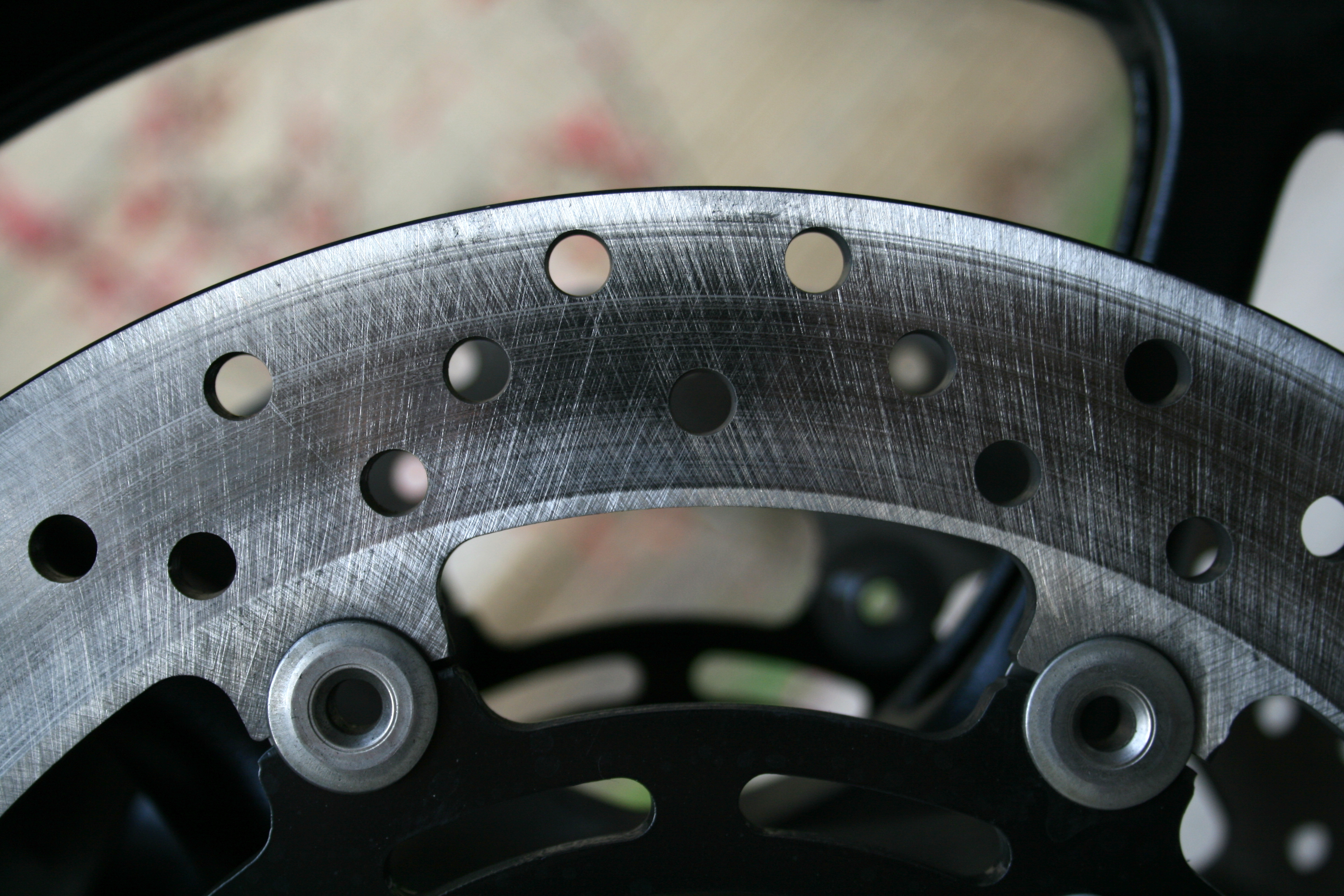 The surface of the front brake rotor on a 2008 Yamaha FZ6 motorcycle after approximately 600 miles of use.